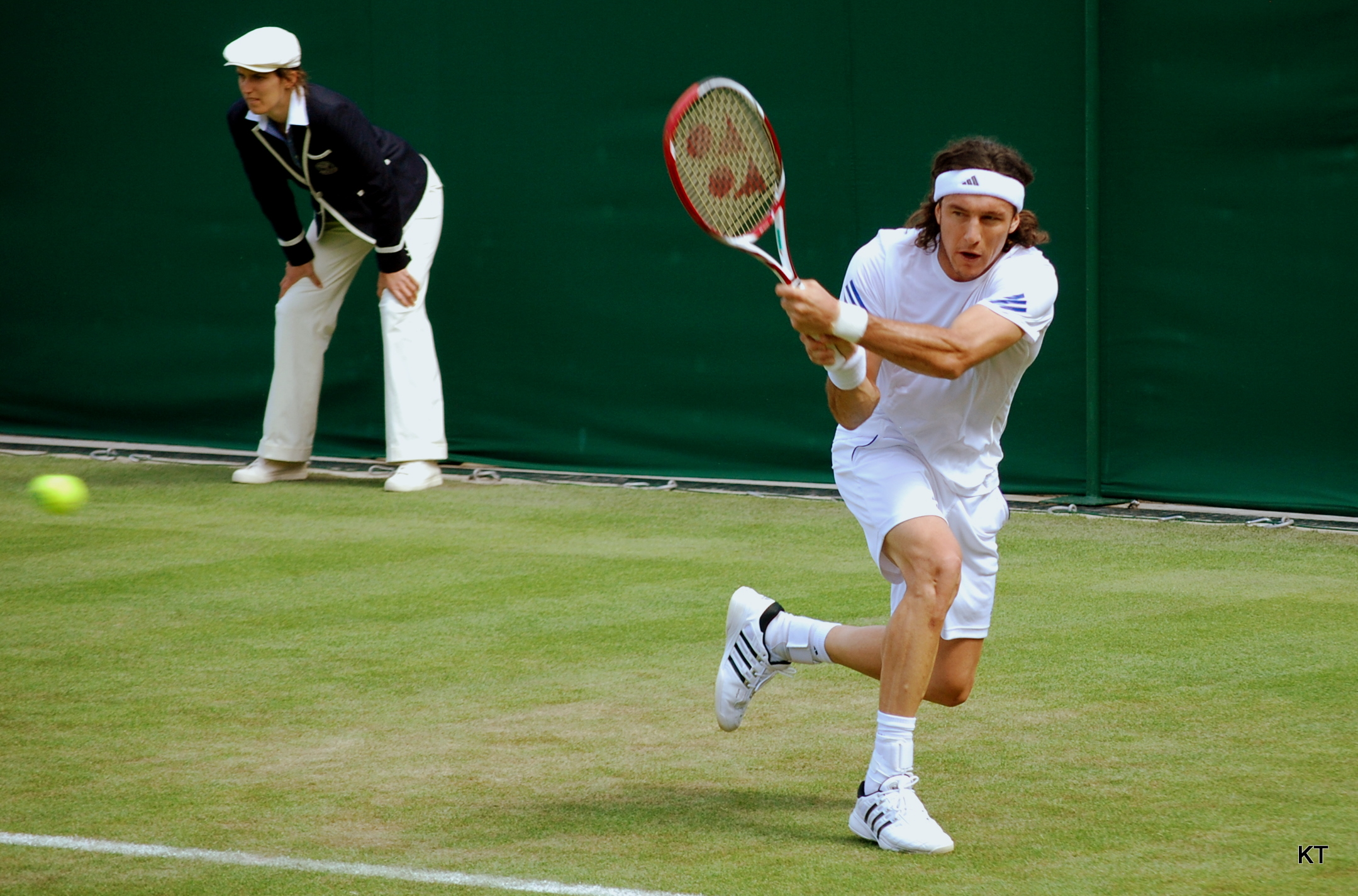 Juan Monaco during his first round match with Mikhail Youzhny. Youzhny won 4-6, 6-2, 6-2, 4-6, 6-4. Day 2 of Wimbledon 2011.